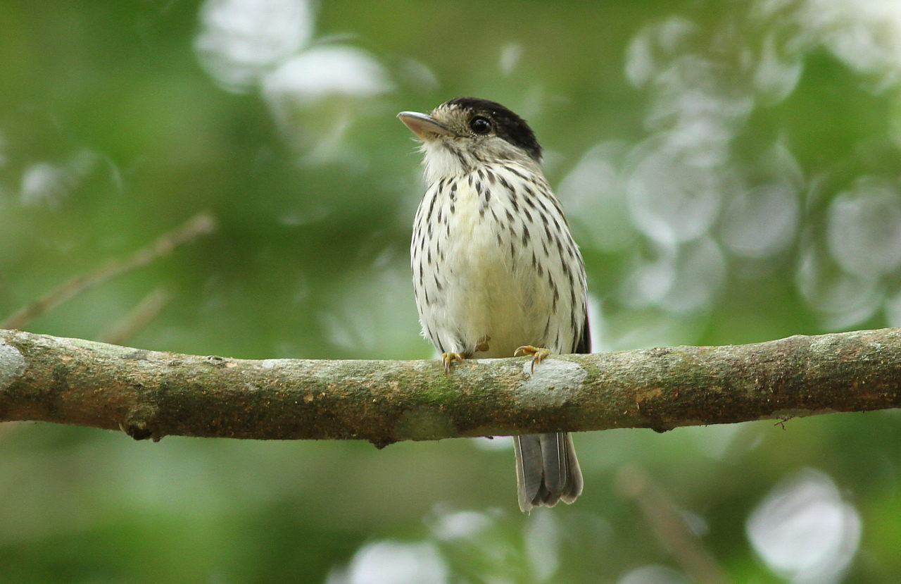 African broadbill, Smithornis capensis, at uMkhuze Game Reserve, kwaZulu-Natal, South Africa